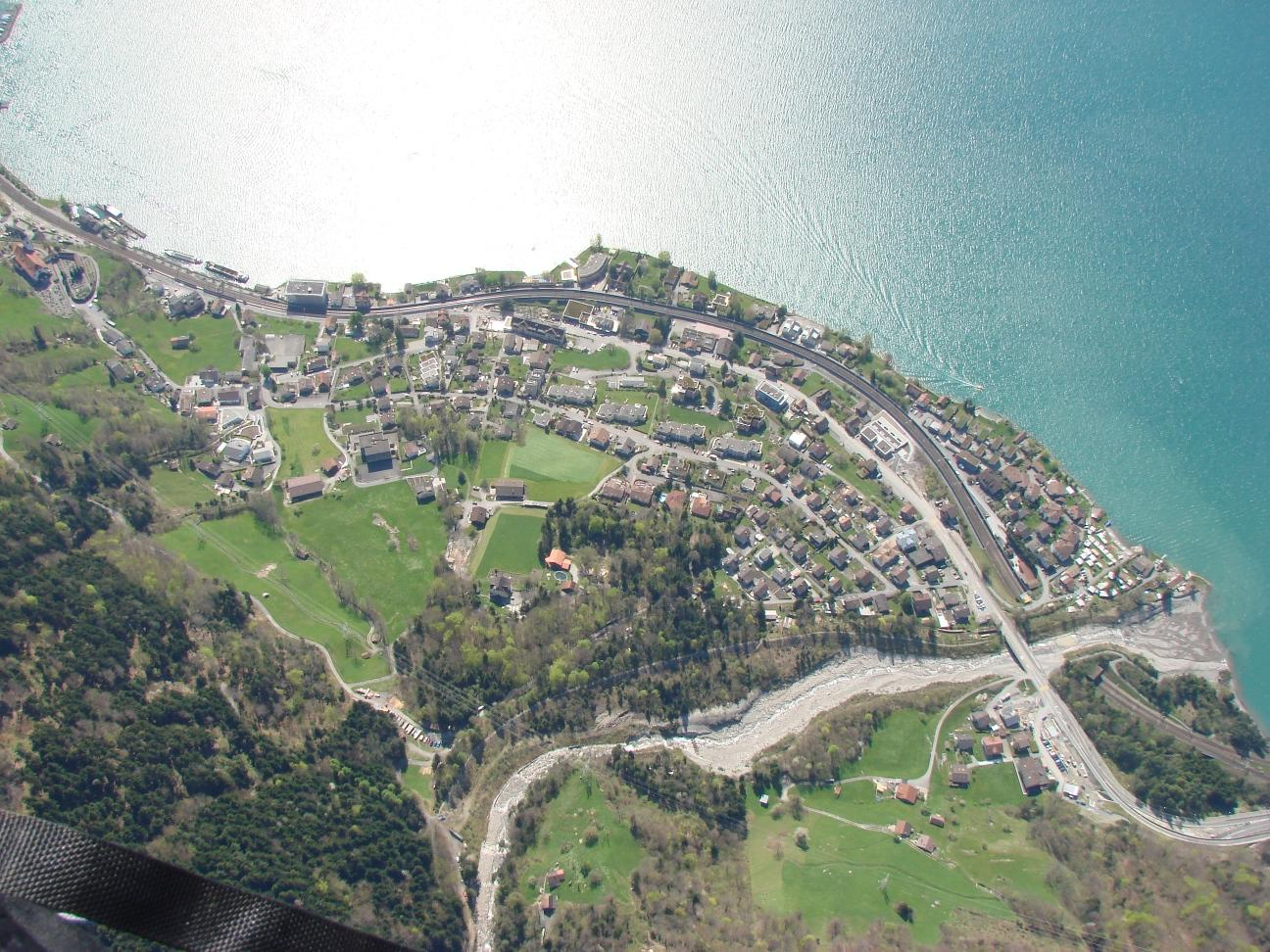 Flüelen by air